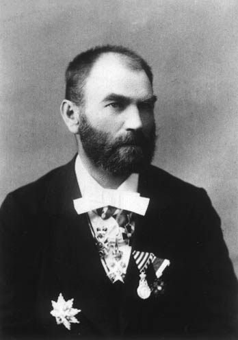 Photo of Milan Đ. Milićević.